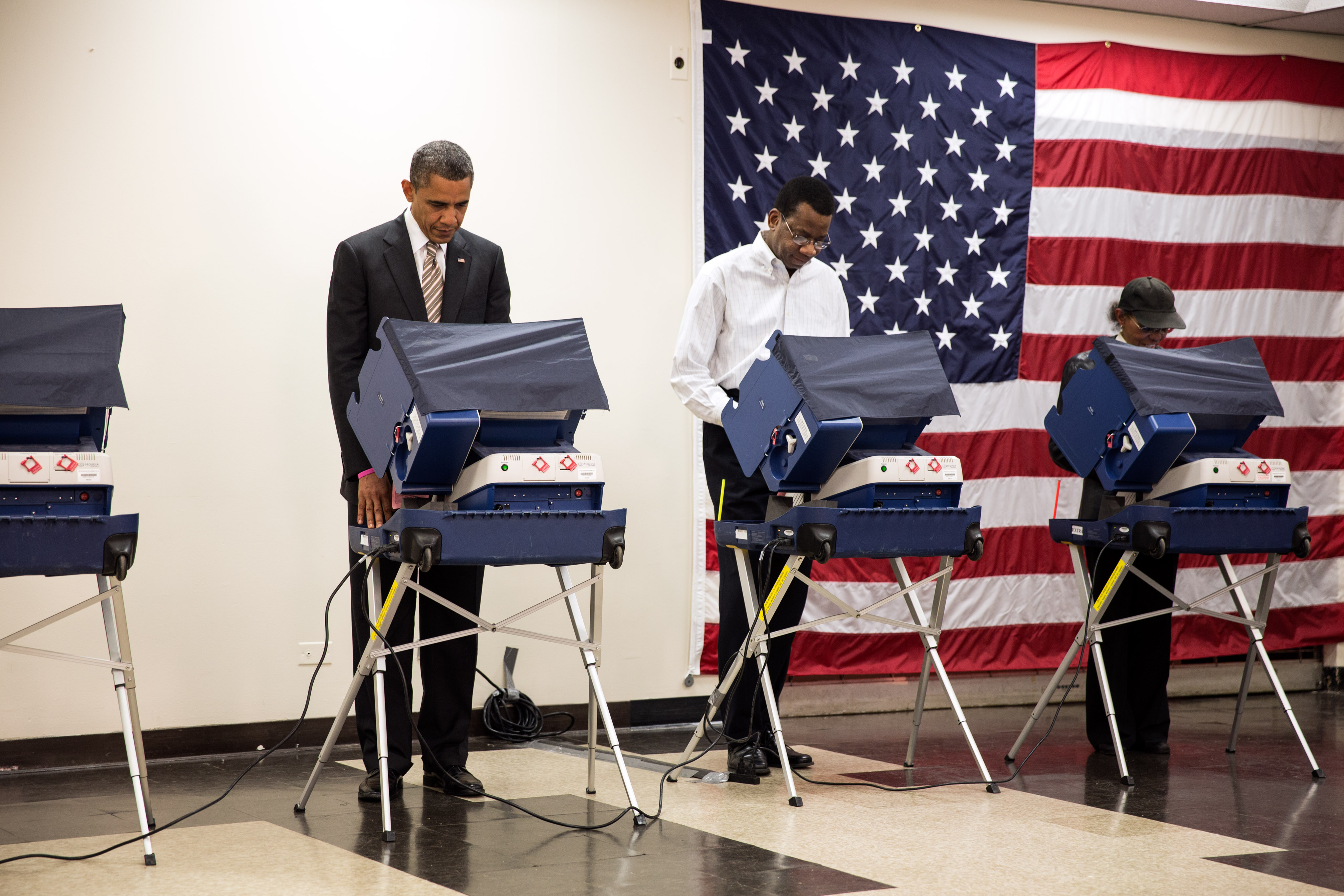 United States President Barack Obama casts his ballot during early voting in the 2012 U.S. election at the Martin Luther King Jr. Community Center in Chicago, Illinois on 25 October 2012, making him the first U.S. President to vote early.